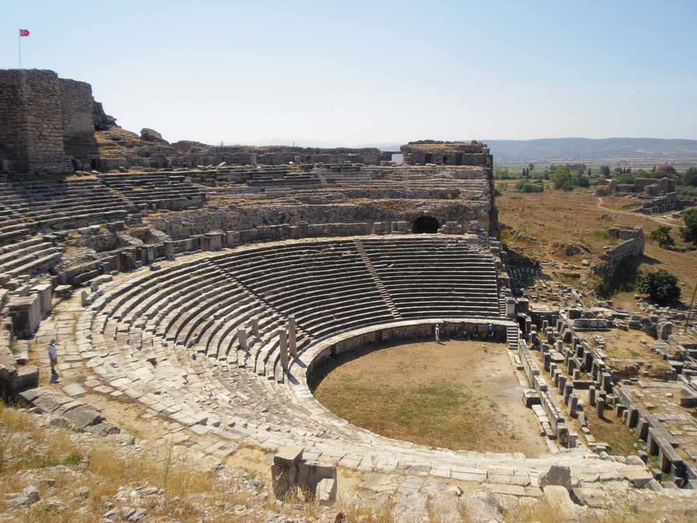 The theater of Miletus was built in the 4th century B.C. after Alexander the Great defeated the Persians who controlled the city. In its first phase in the Hellenistic period, the theater could seat 5,300. After being enlarged in the Roman period, it held 25,000.